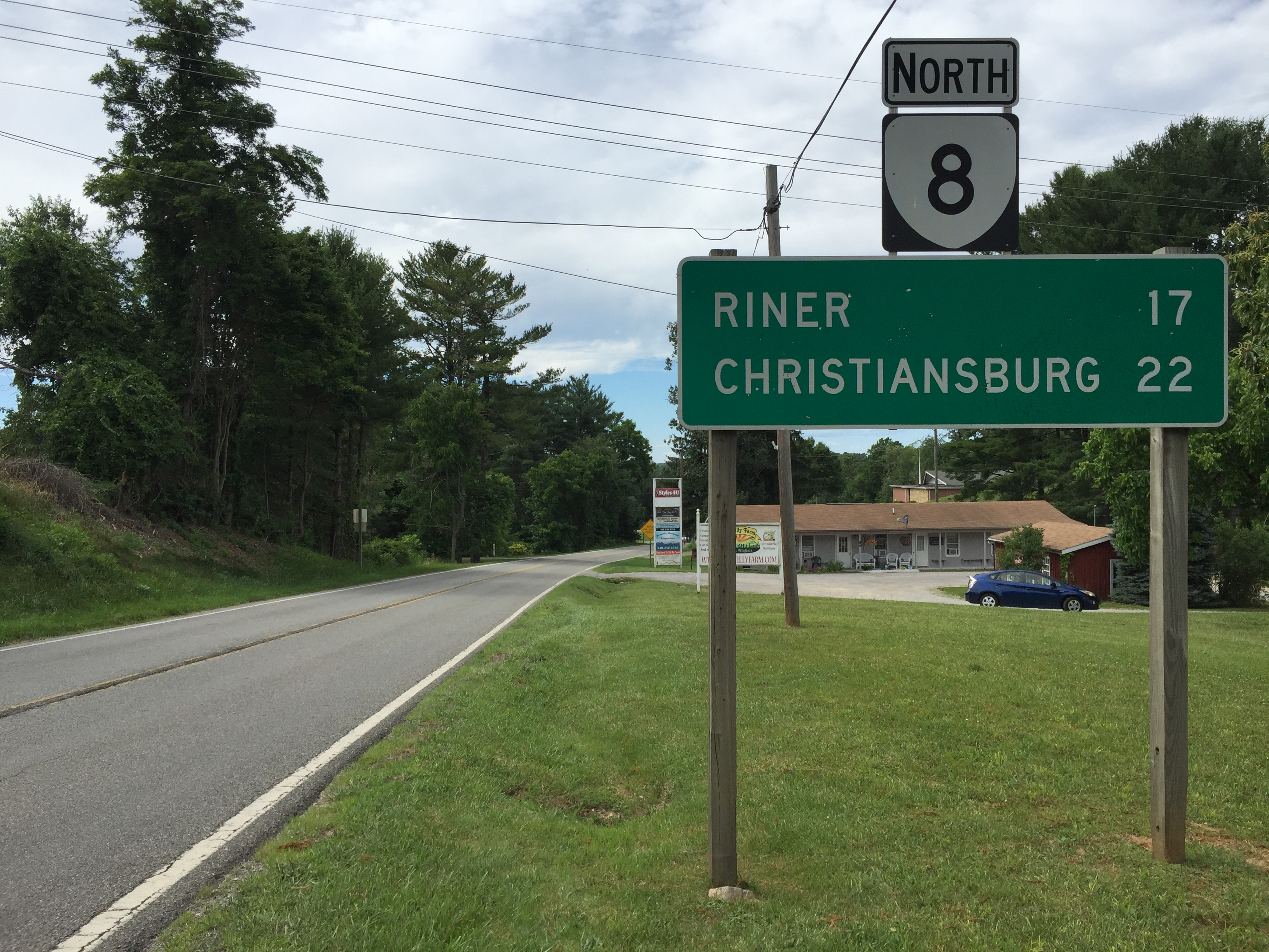 View north along Virginia State Route 8 (Webbs Mill Road) just north of Needmore Lane (Virginia State Secondary Route 695) just north of Floyd in Floyd County, Virginia